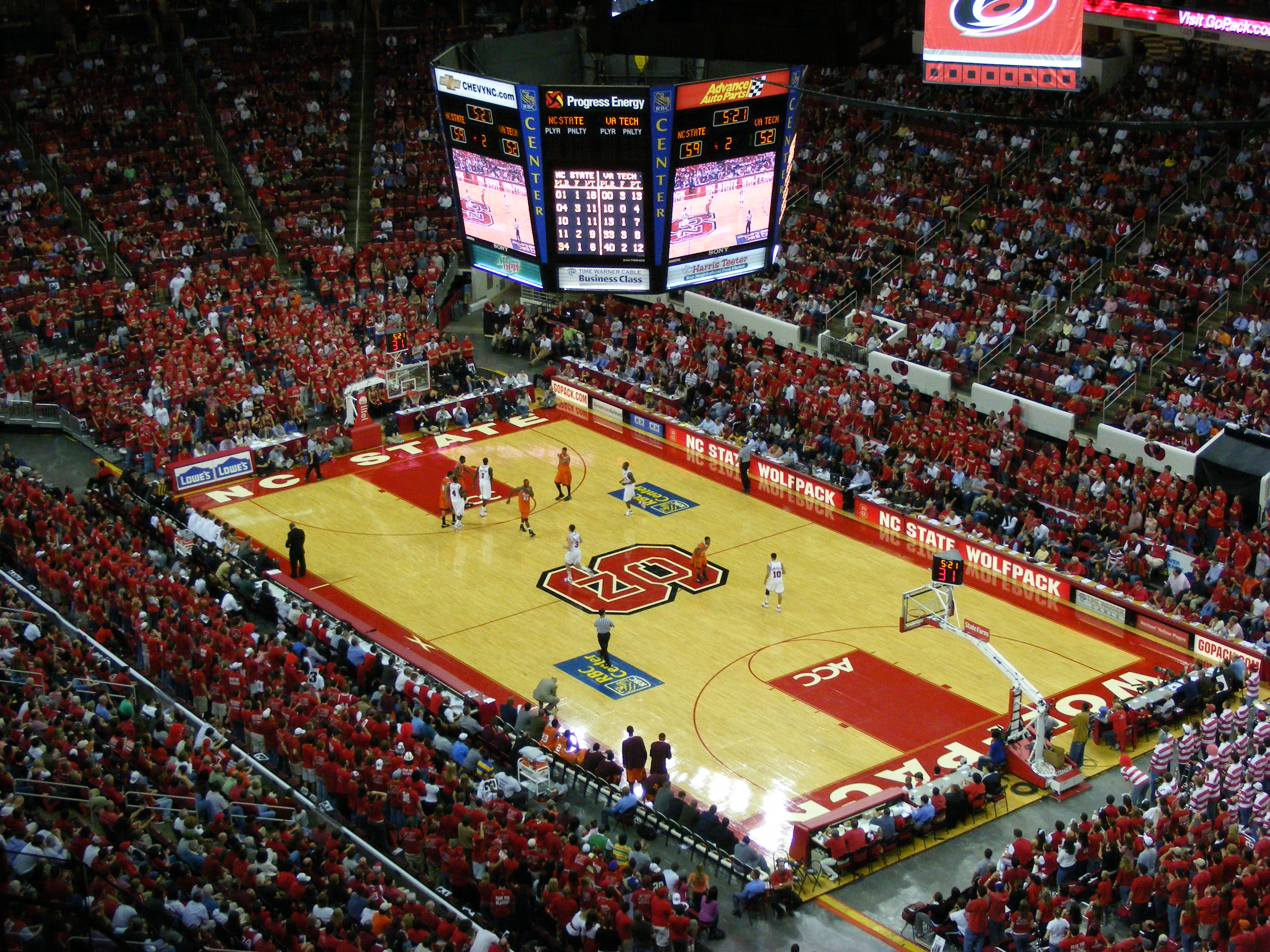 The RBC Center, home of the NC State Wolfpack basketball team, during a game between the Wolfpack and the Virginia Tech Hokies